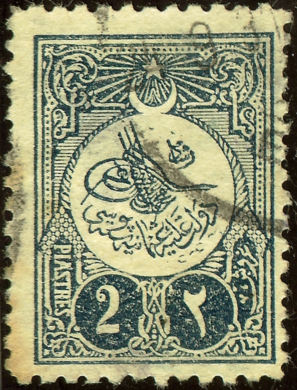 A 2 piastres stamp of Ottoman Empire, 1909, Scott Cat. no. 155.